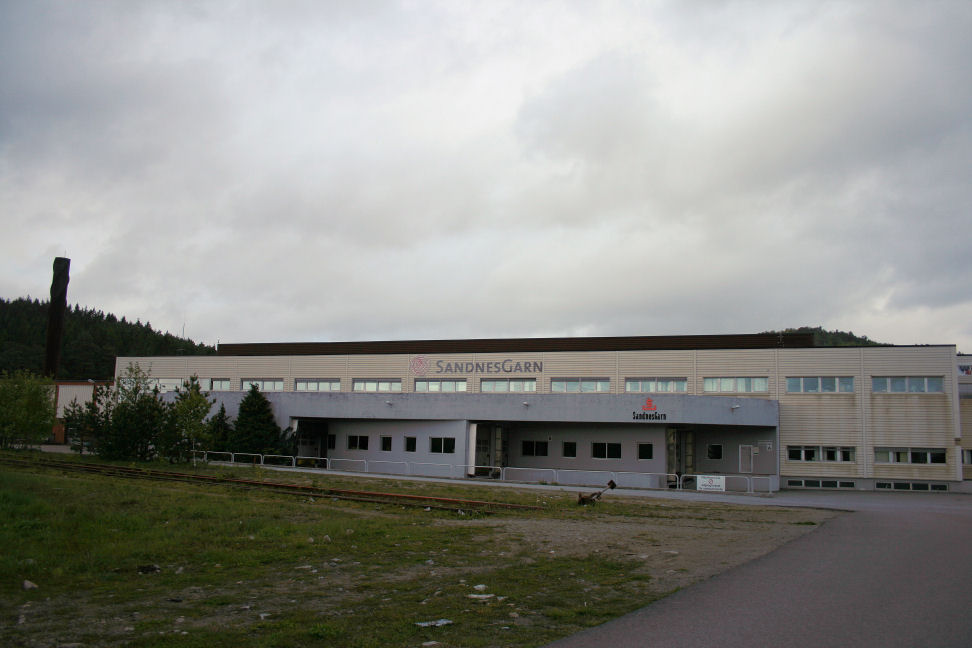 SandnesGarn(Sandnes wool factory)